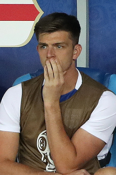 Nick Pope on the bench for England against Belgium at the 2018 FIFA World Cup